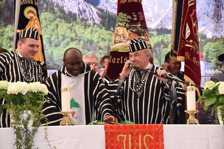 A tiv catholic priest in traditional attire with some european priest